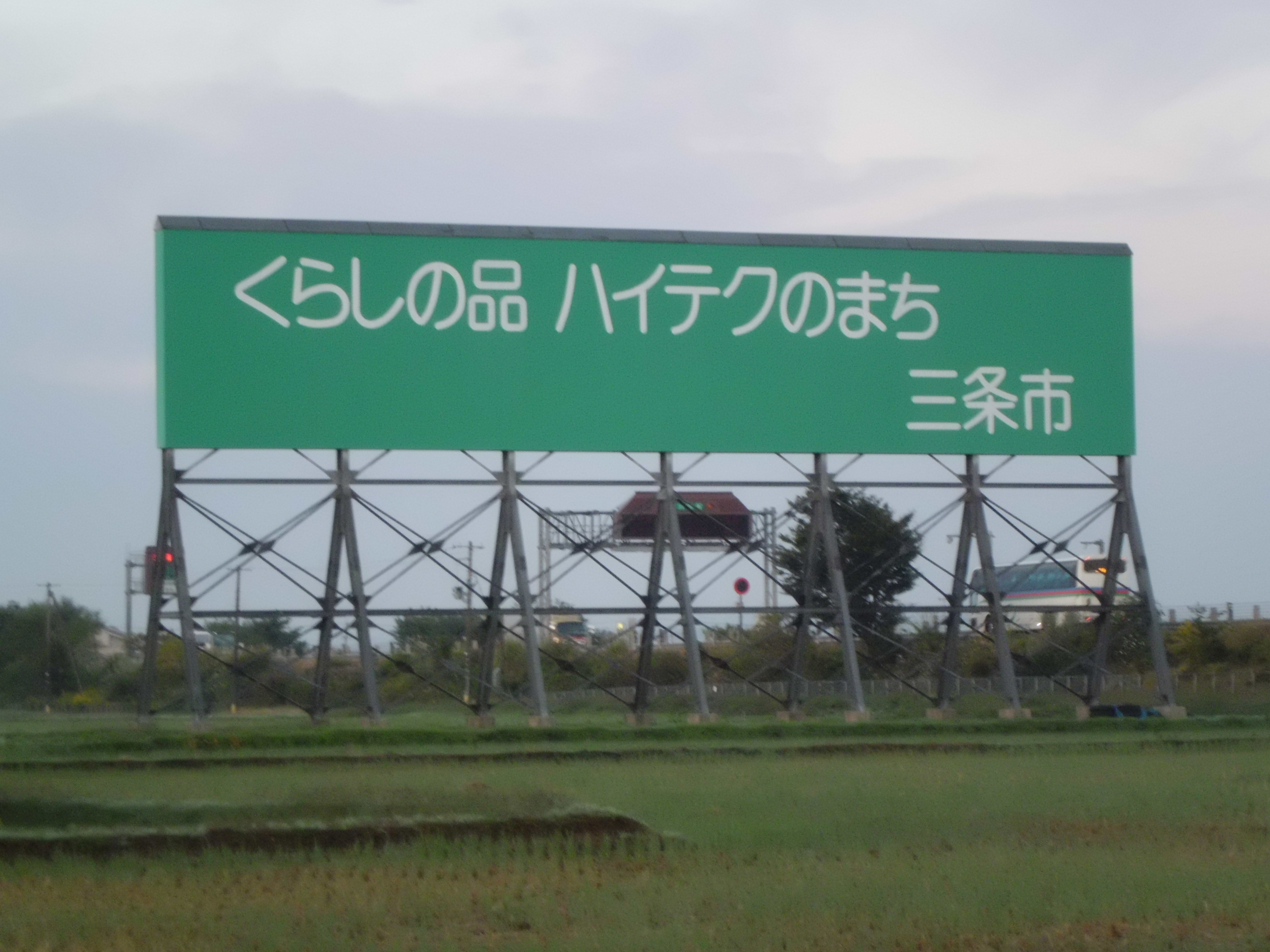 Signboard of Sanjo city, Niigata prefecture, Japan. "Sanjo, the city of tools of living and high-tech."